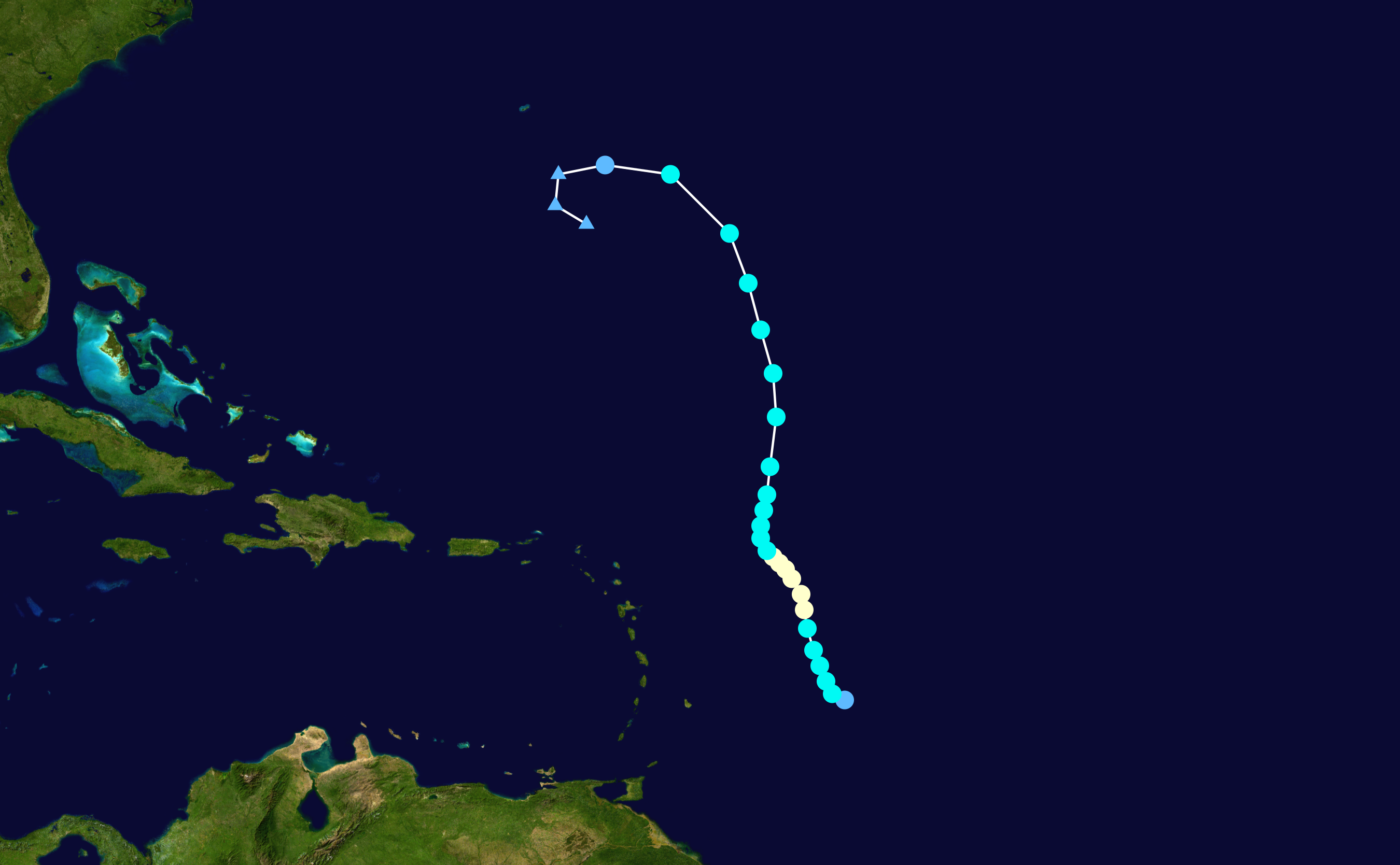 Track map of Hurricane Philippe of the 2005 Atlantic hurricane season. The points show the location of the storm at 6-hour intervals. The colour represents the storm's maximum sustained wind speeds as classified in the Saffir–Simpson scale (see below), and the shape of the data points represent the nature of the storm, according to the legend below. Saffir–Simpson scale Tropical depression≤38 mph≤62 km/h Category 3111–129 mph178–208 km/h Tropical storm39–73 mph63–118 km/h Category 4130–156 mph209–251 km/h Category 174–95 mph119–153 km/h Category 5≥157 mph≥252 km/h Category 296–110 mph154–177 km/h Unknown Storm type Tropical cyclone Subtropical cyclone Extratropical cyclone / Remnant low / Tropical disturbance / Monsoon depression